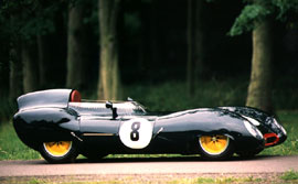 Under the trees at Donington Park